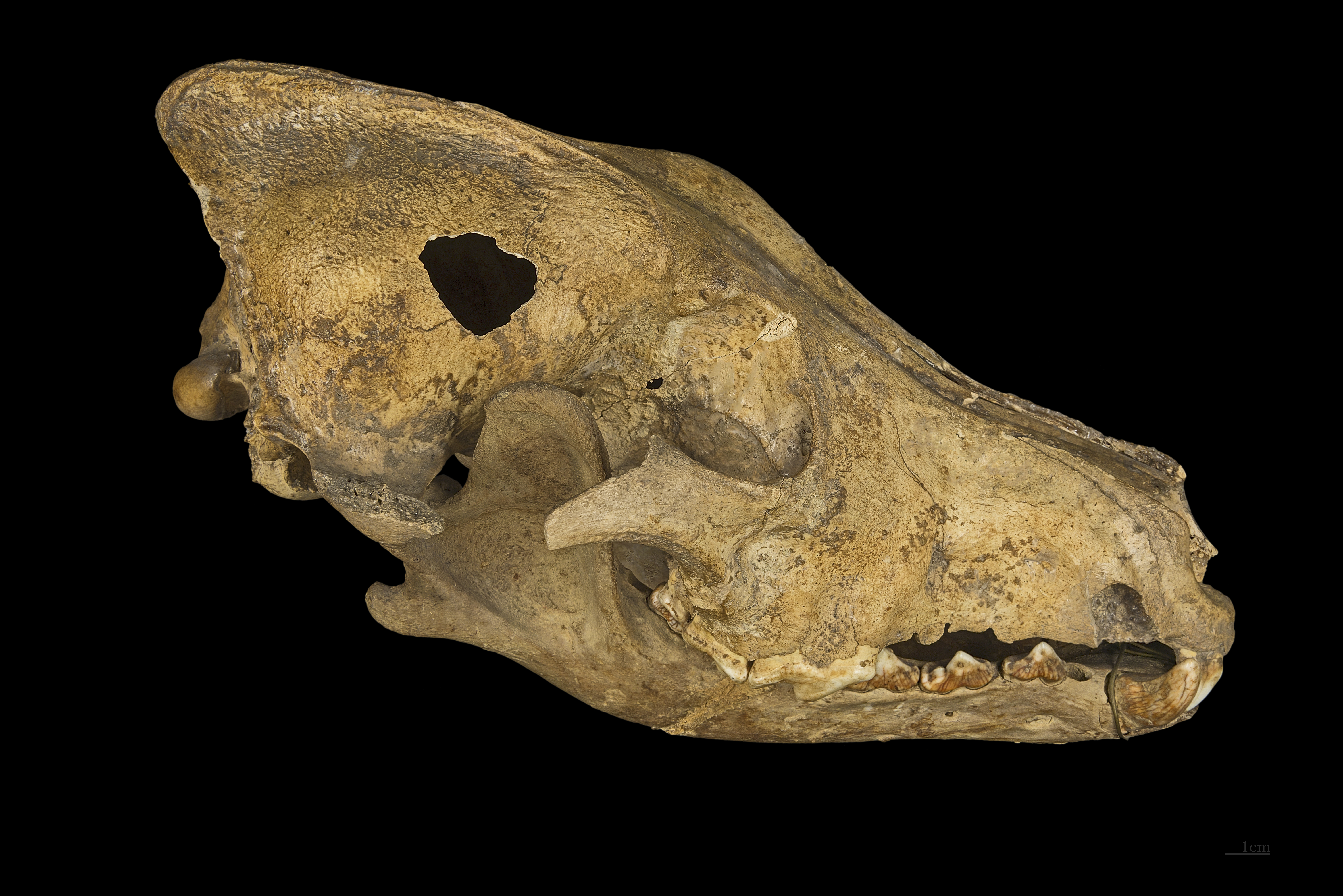 Skull of wolf (Canis lupus) Stage : Pleistocene Locality : the "forgotten", natural chimneys filled with bones Gargas cave Hautes-Pyrénées,France. Searches by Felix Régnault to 1884 from 1887. Muséum of Toulouse MHNT.PRE.2012.0.693